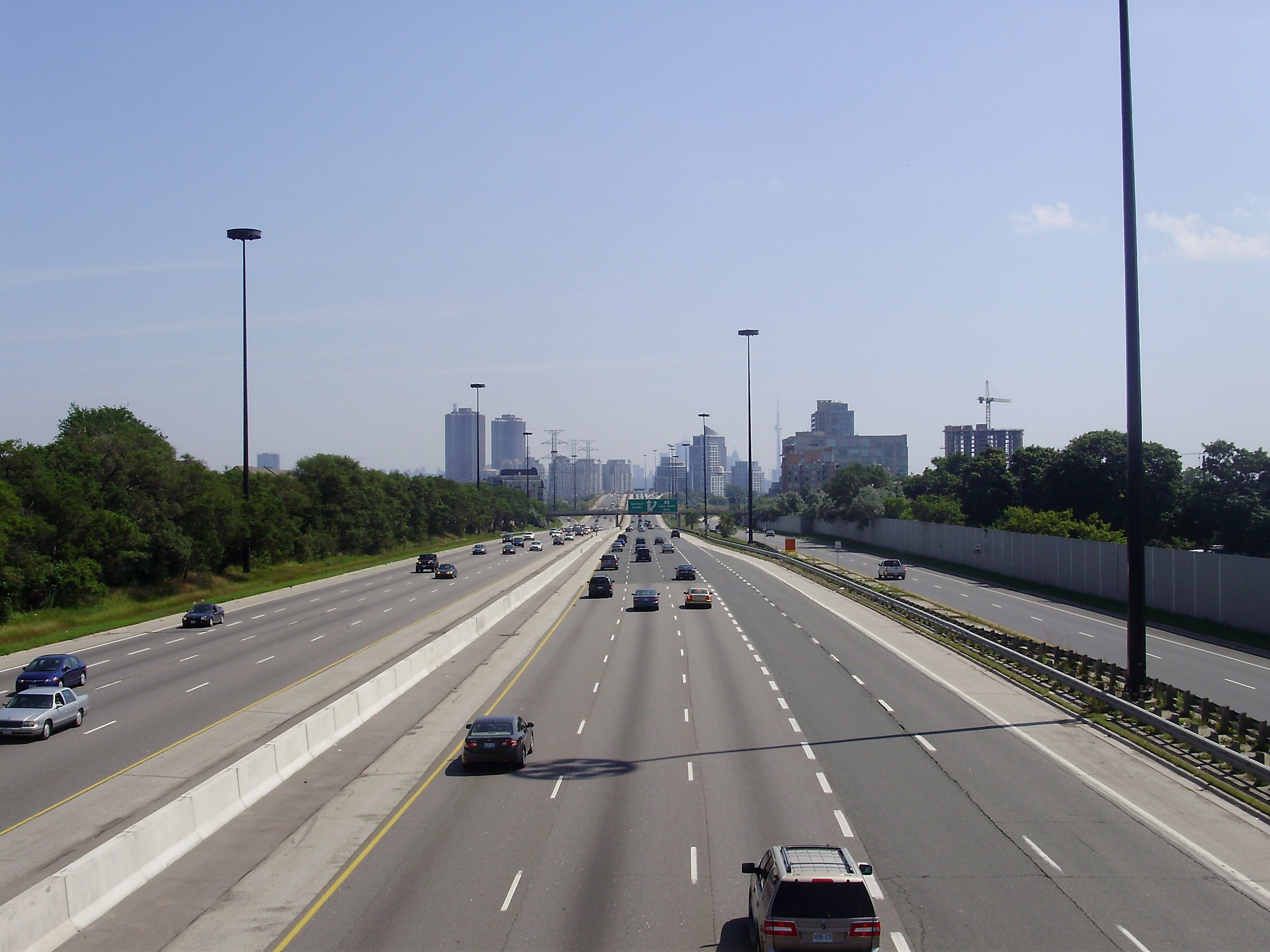 Looking east along the Queen Elizabeth Way toward Toronto, visible in the distance, from the Royal York Road overpass in Etobicoke, Ontario, Canada.